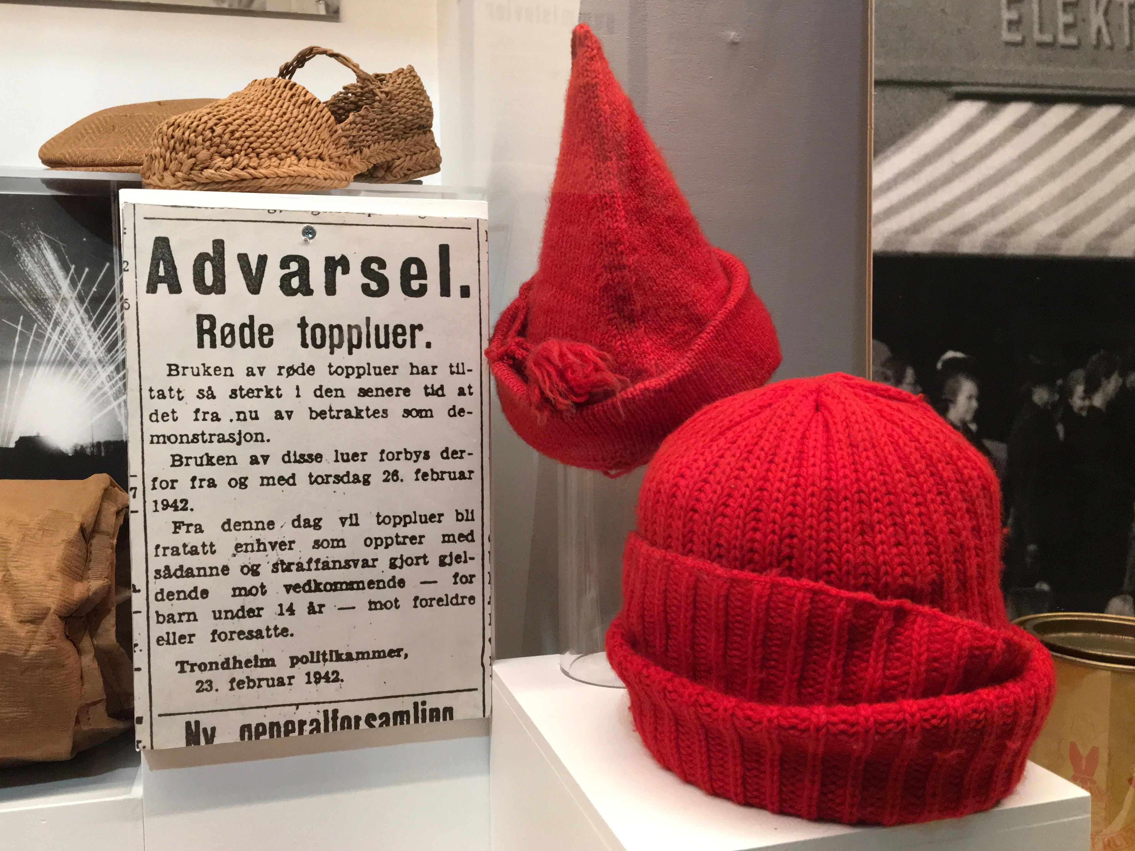 The Austerity of Occupation: Red woolen caps outlawed 1942-02-26 as symbols of national unit. (Røde toppluer forbudt, Trondheim, 26. februar 1942) Photo taken on 2017-11-30 at the exhibition of Norway's WW2 Resistance Museum (Hjemmefrontmuseet) at Akershus fortress in Oslo, Norway.